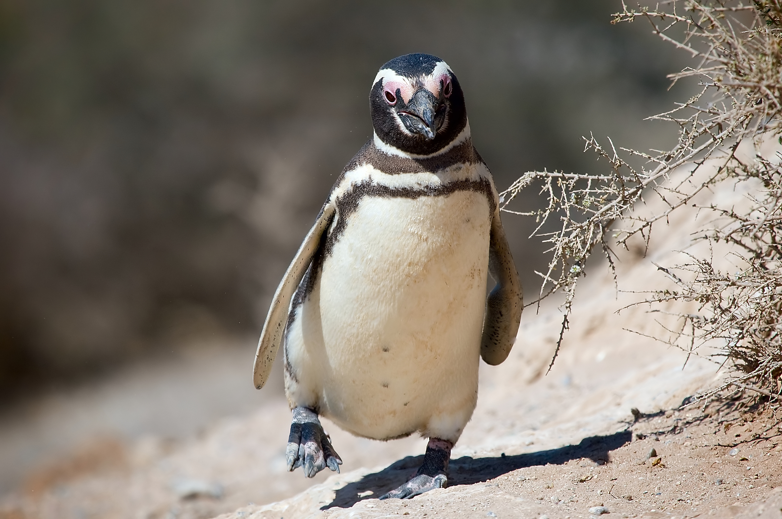 Magellanic penguin (Spheniscus magellanicus), Valdes Peninsula, ArgentinaEsperanto: Magelana pingveno (Spheniscus magellanicus), Duoninsulo Valdes, Argentino